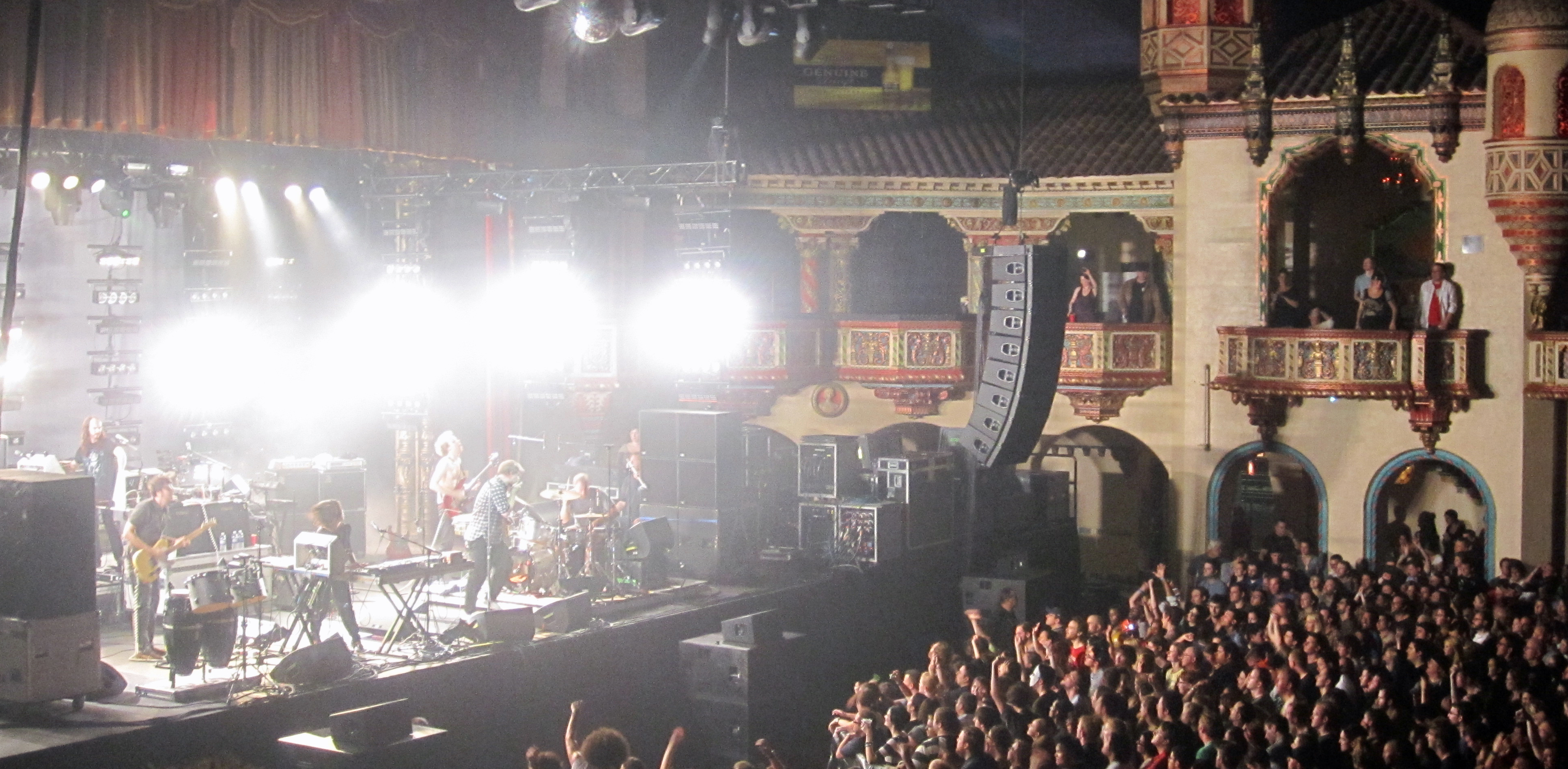 LCD Soundsystem, Chicago, 10/25/2010